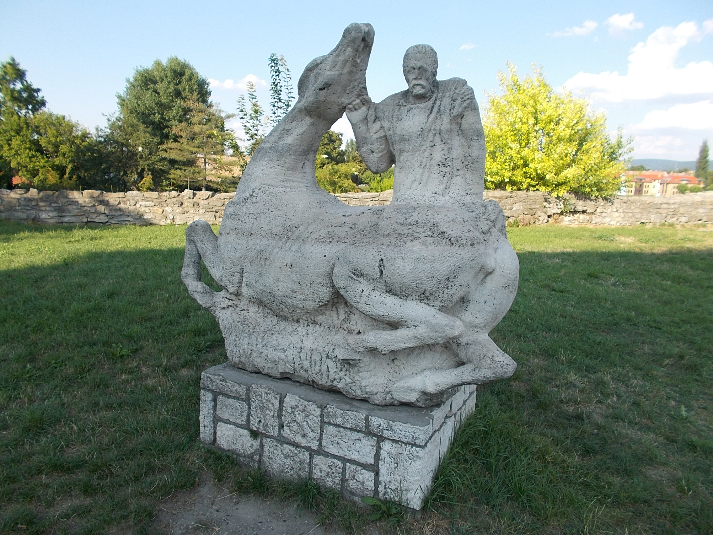 Castle. Listed 6470. - Tata, Komárom-Esztergom County, Hungary